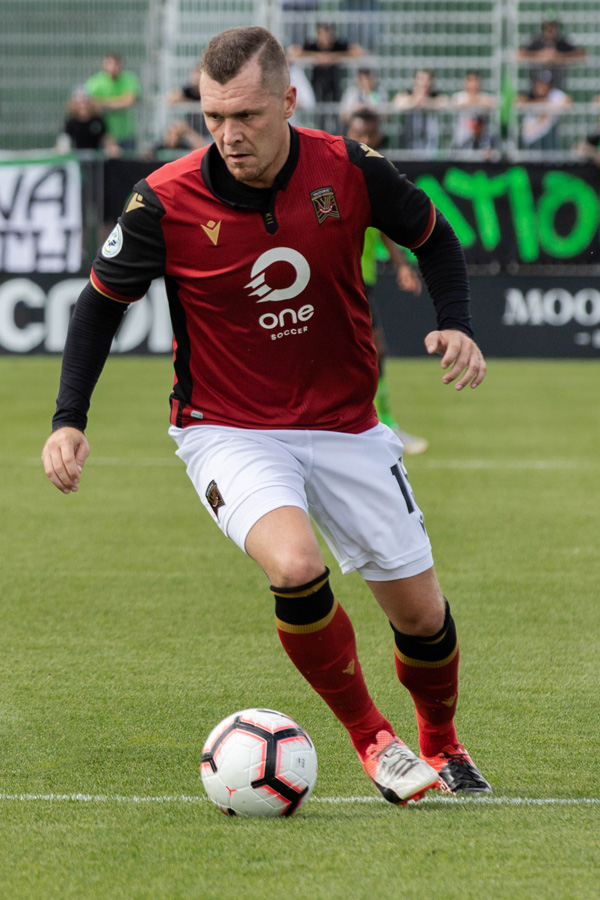 Adam Mitter controls the ball for Valour FC in a match against York9 FC.